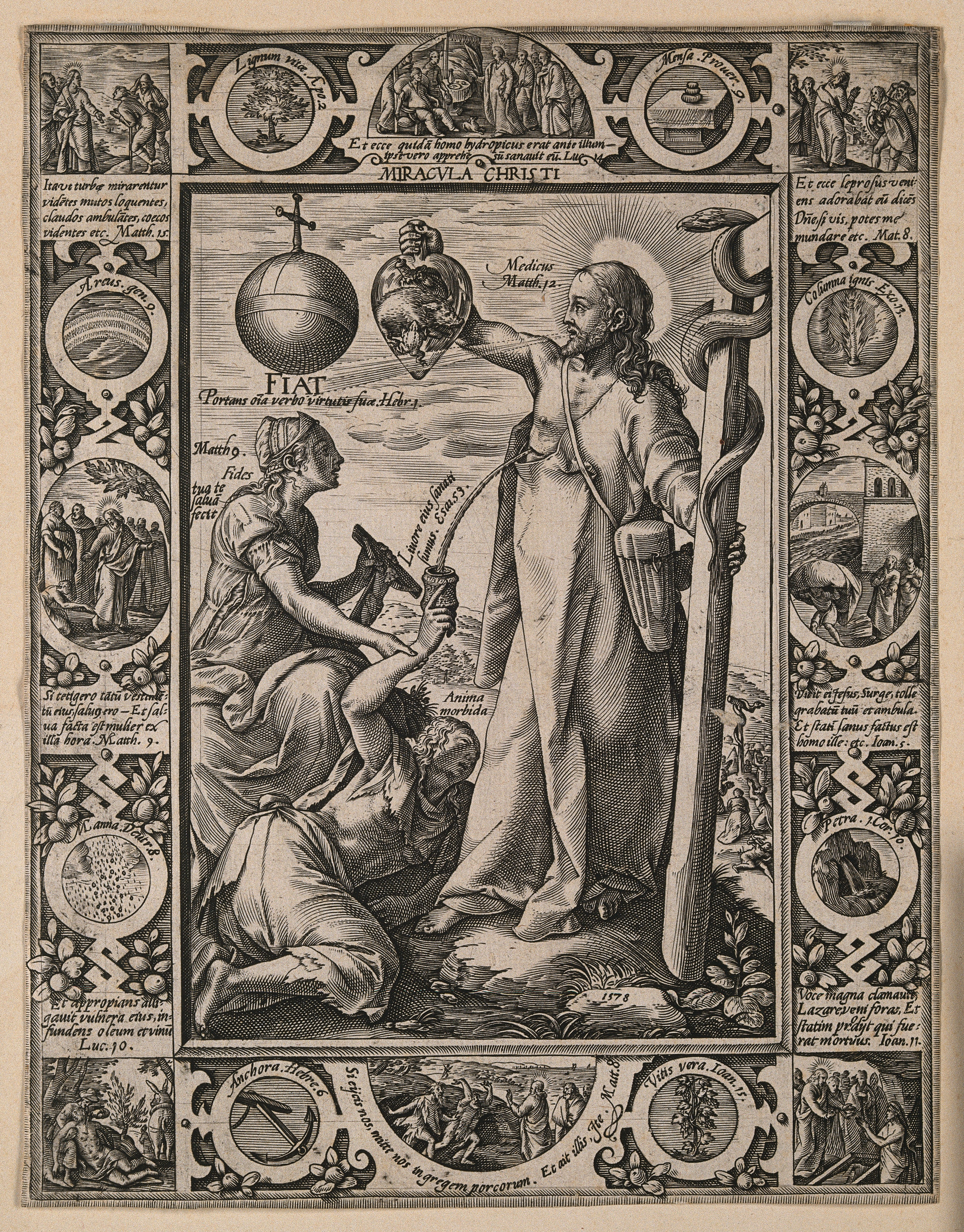 Christ holds up a glass heart filled with animals and cures a sick woman with the fluid from the wound in his side. Engraving by H. Goltzius, 1578. Iconographic Collections Keywords: jesus christ; Jesus Christ.; MIRACLE; Hendrik Goltzius; h golzius; ic